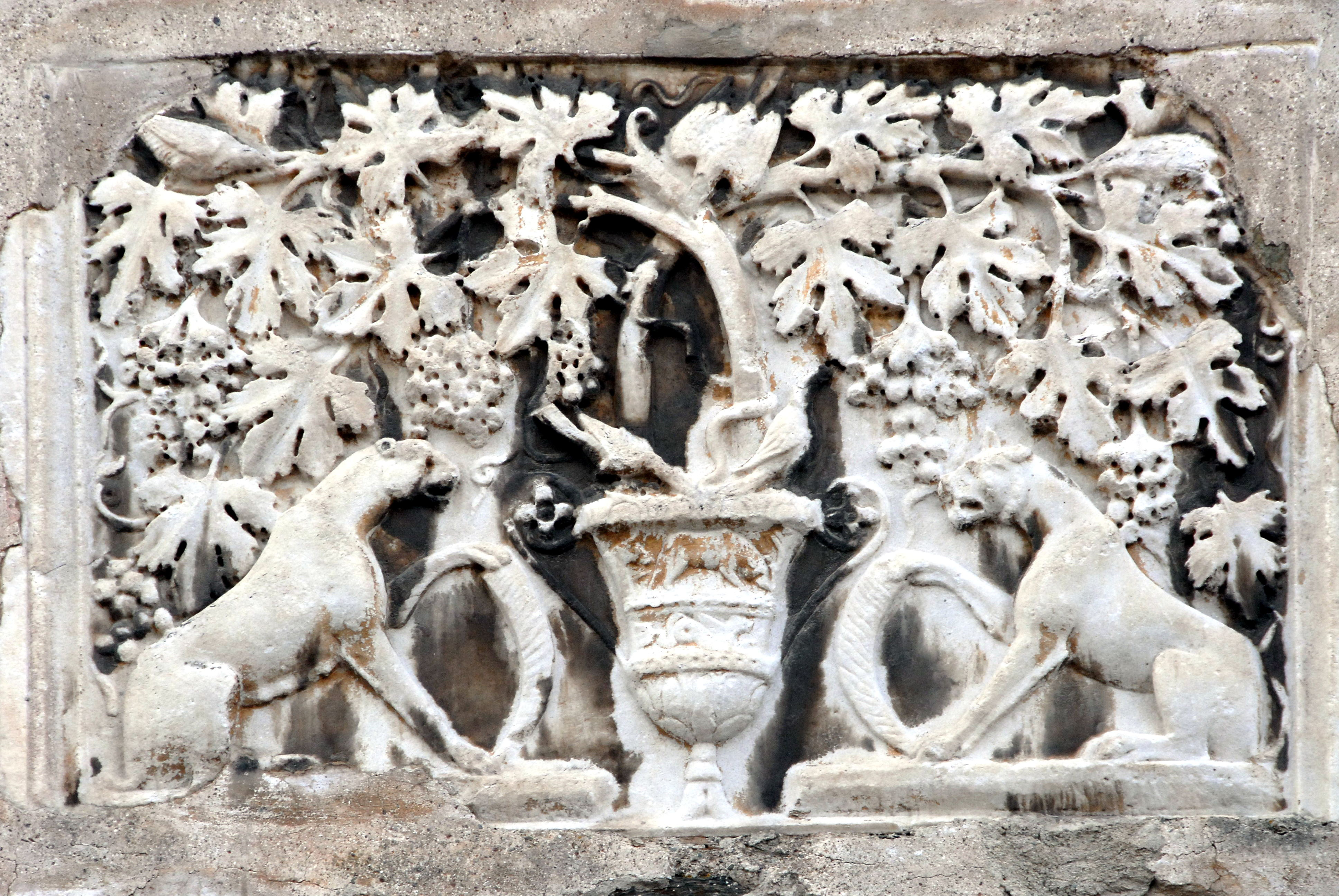 Arbor vitae (tree of life) with two panthers on the relief stone above the south portal of the pilgrimage church the Assumption, market town Maria Saal, district Klagenfurt Land, Carinthia / Austria / EU.